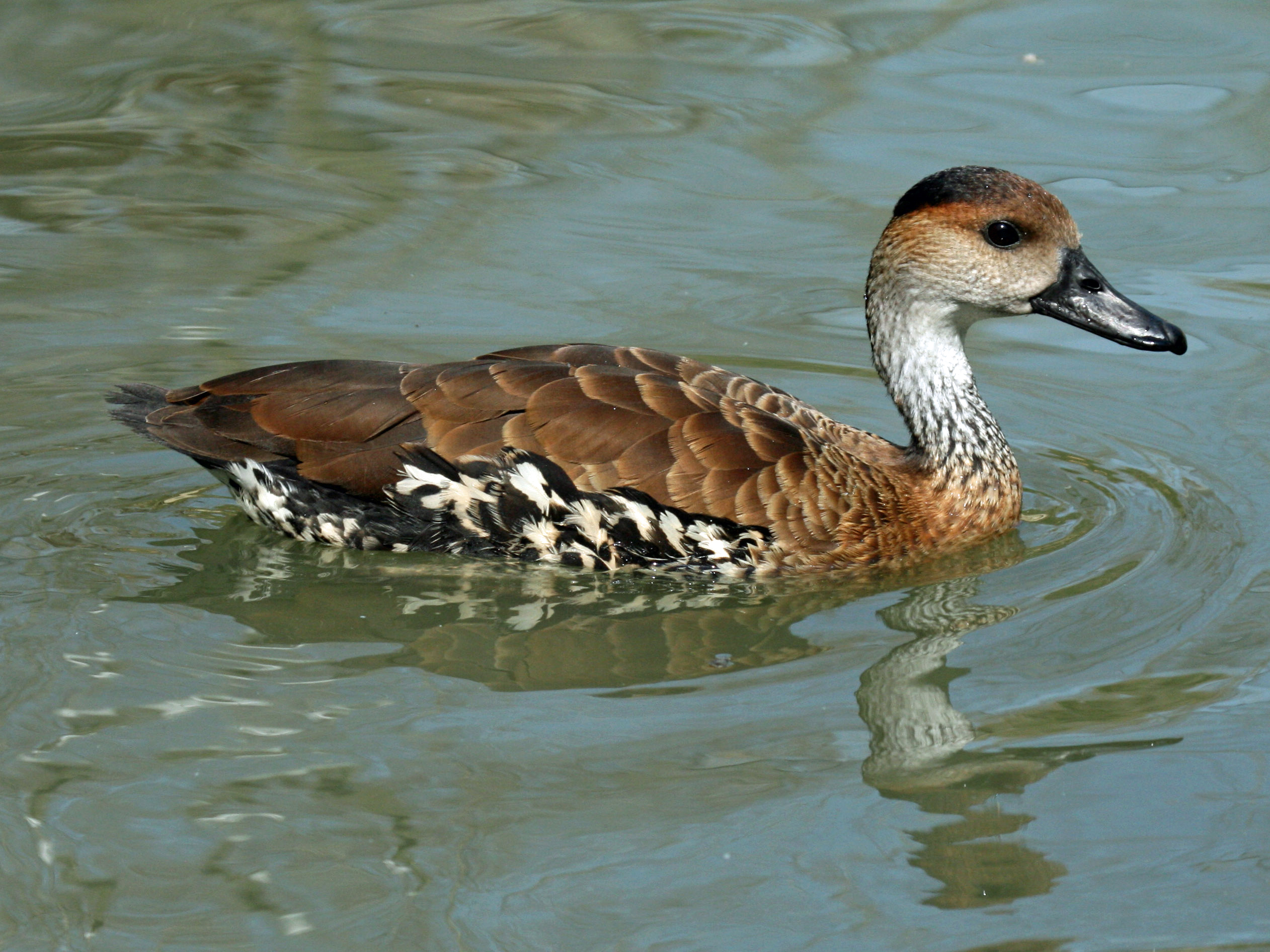 West Indian Whistling-Duck (Dendrocygna arborea) at Sylvan Heights Waterfowl Park in Scotland Neck, North Carolina.